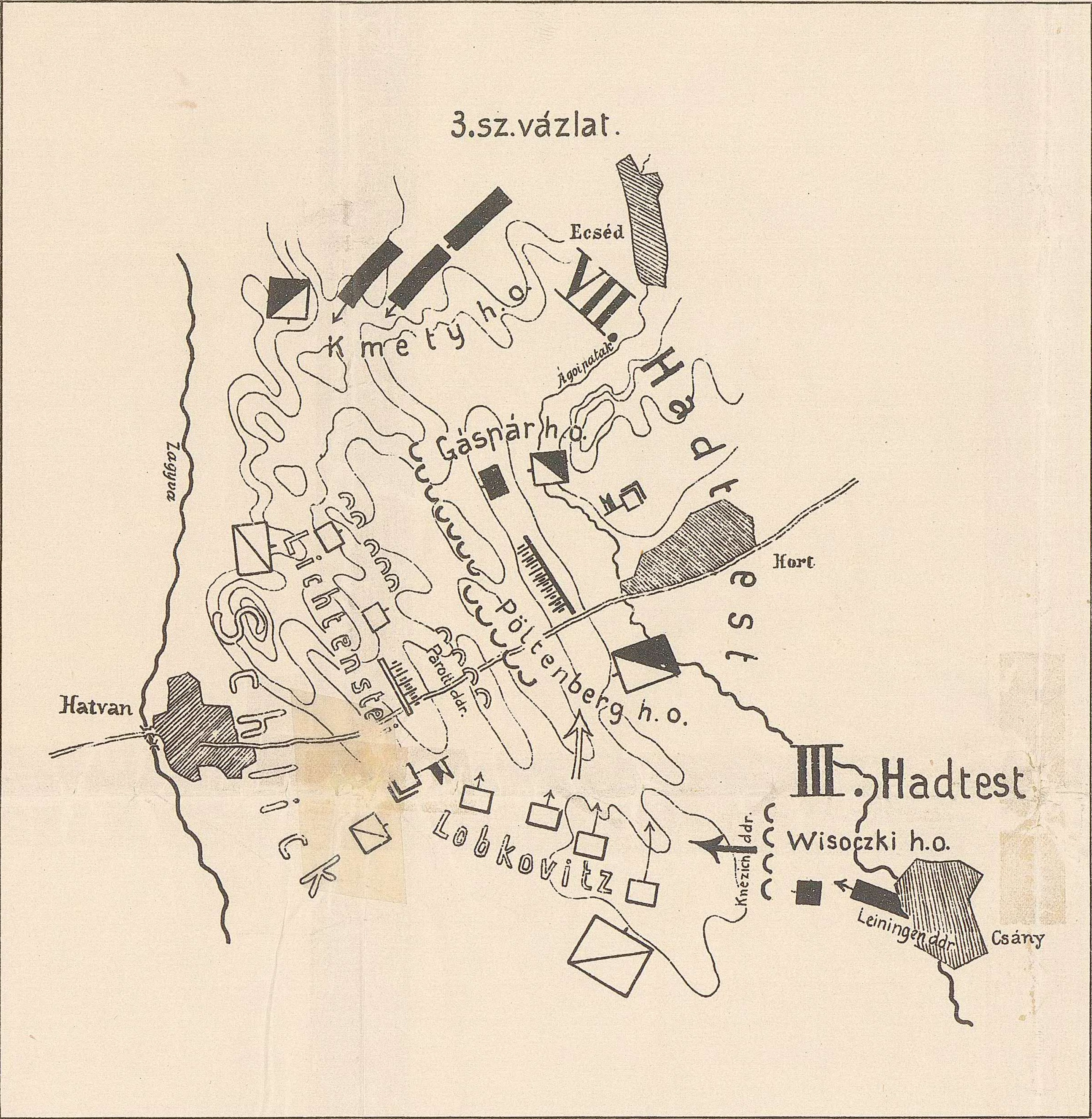 Map of the Battle of Hatvan 02.04.1849